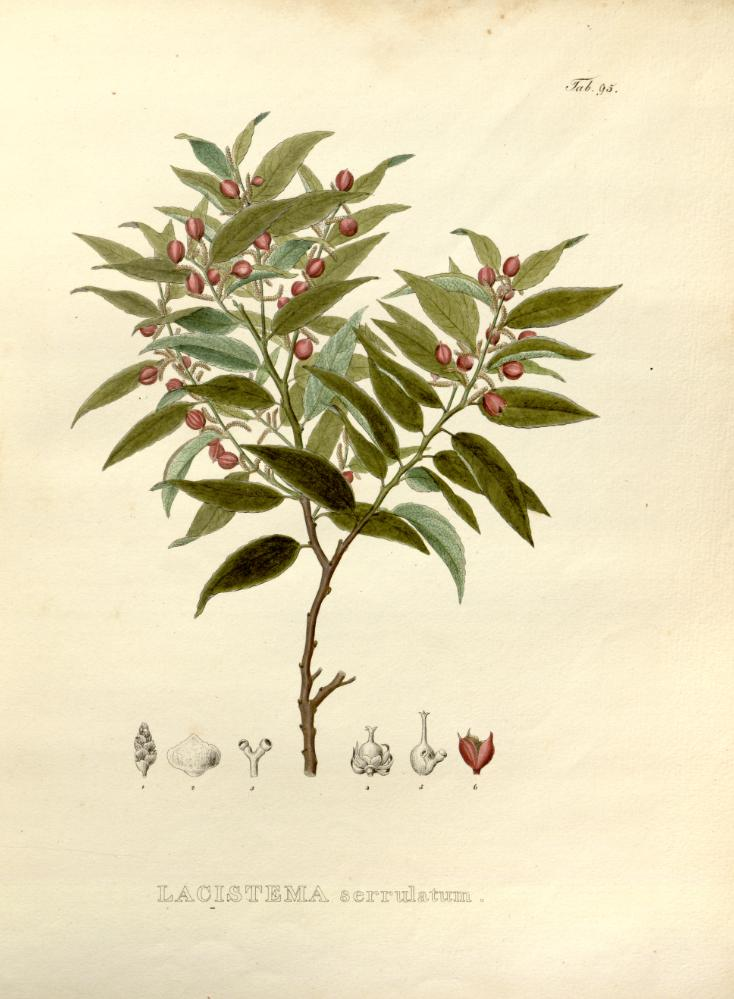 Illustration of Lacistema serrulatum